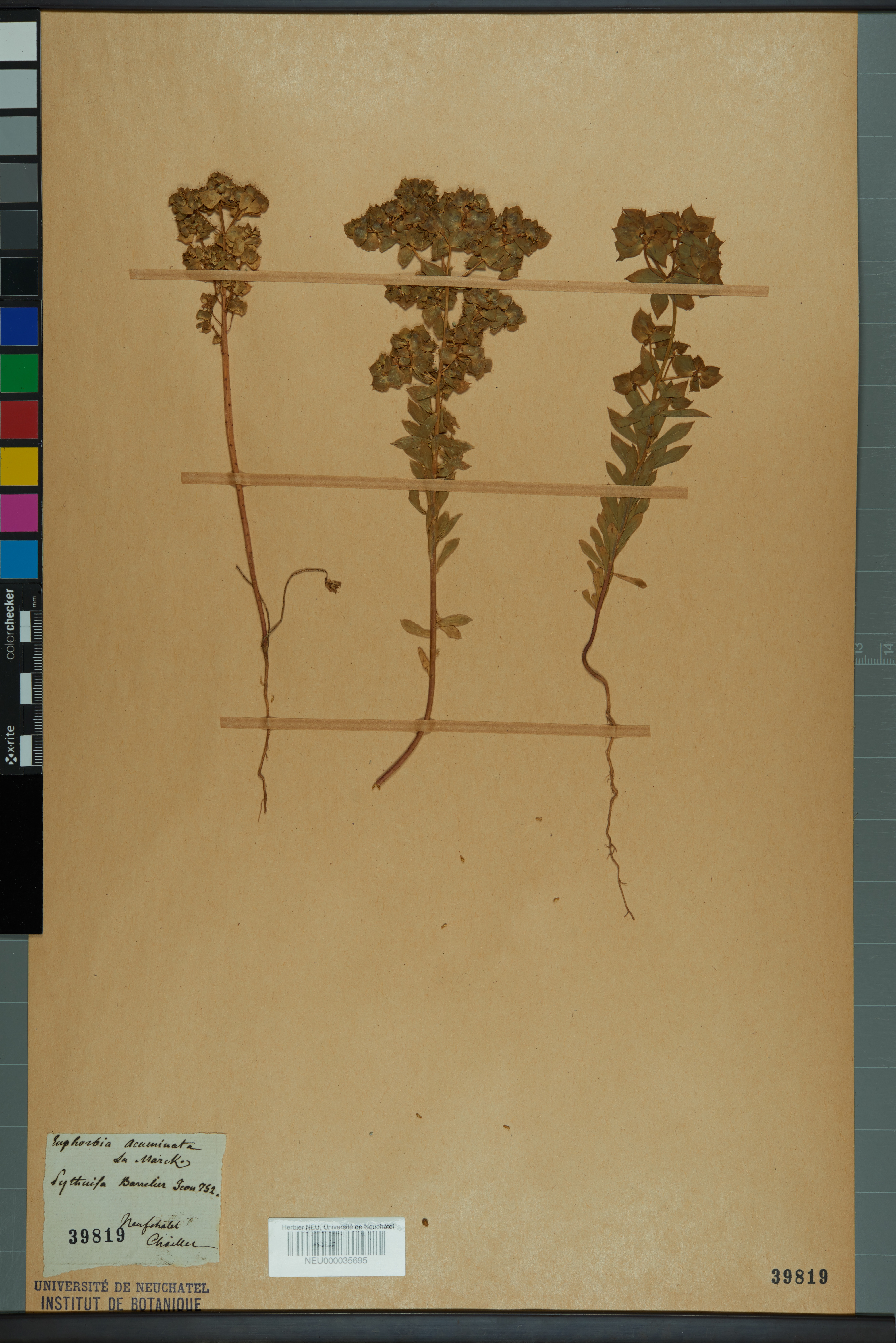 Dried pressed specimen of Euphorbia falcata